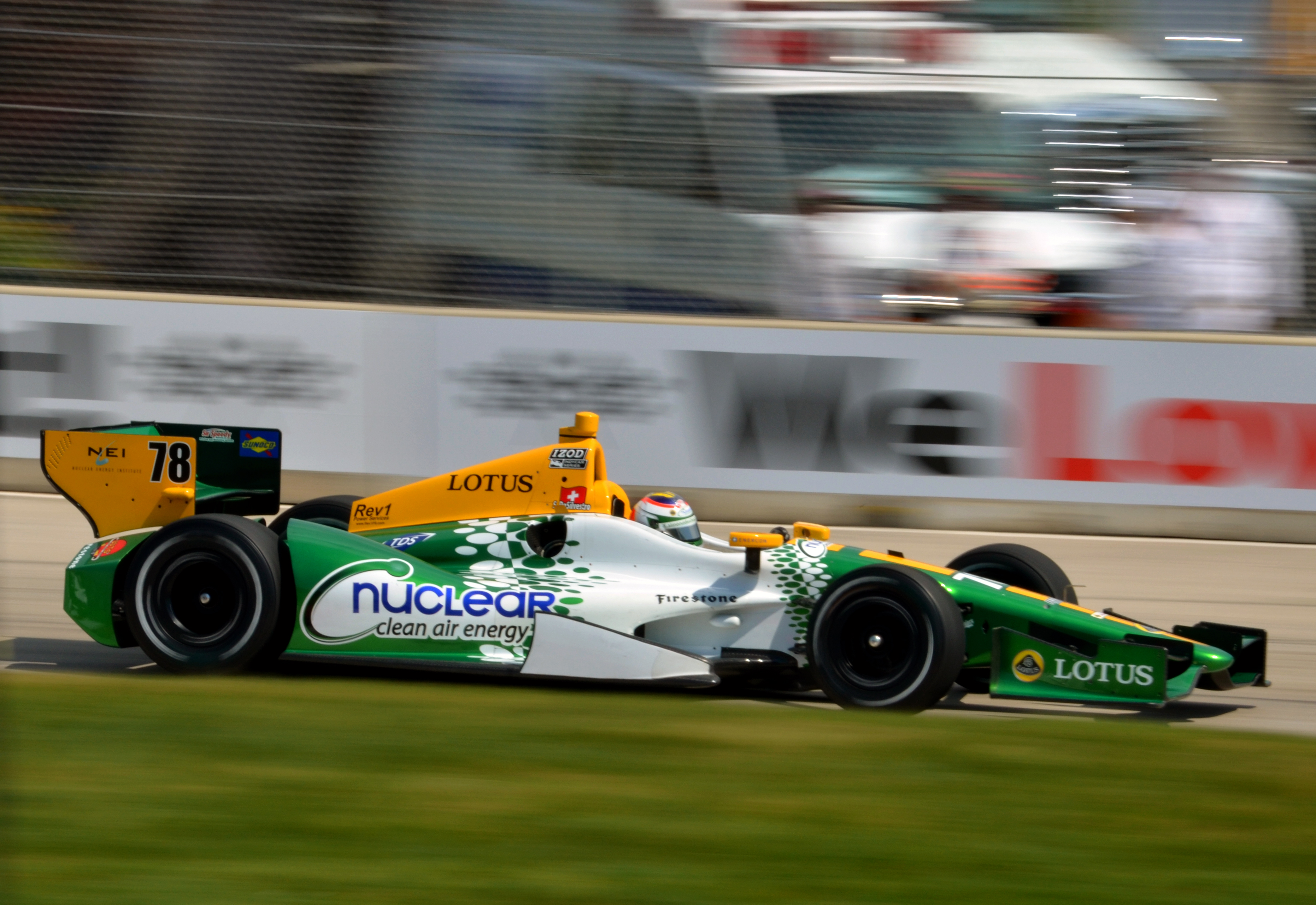 Simona De Silvestro HVM Racing - Lotus 2012 Detroit Belle Isle Grand Prix